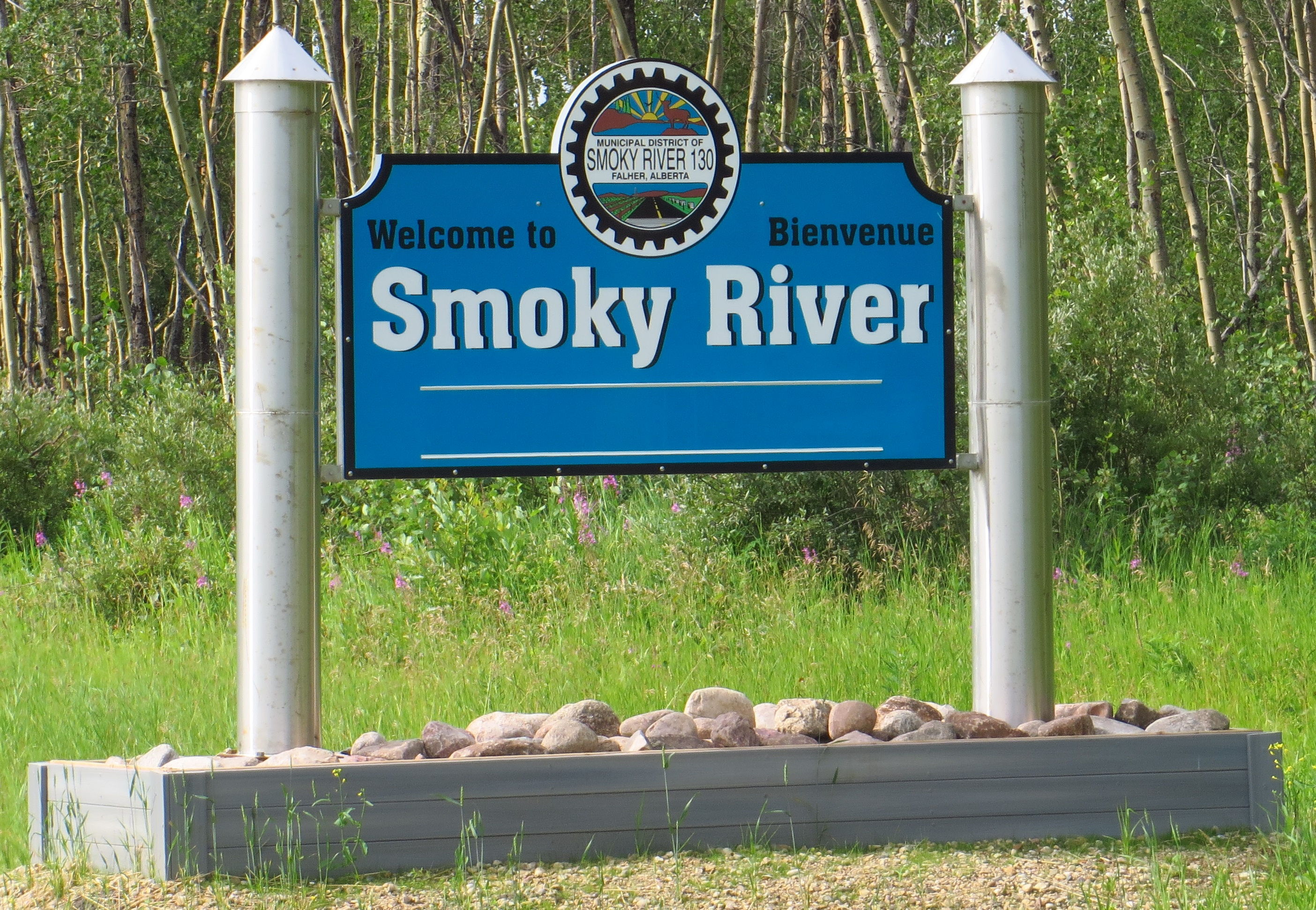 A sign welcoming drivers to the MD of Smoky River